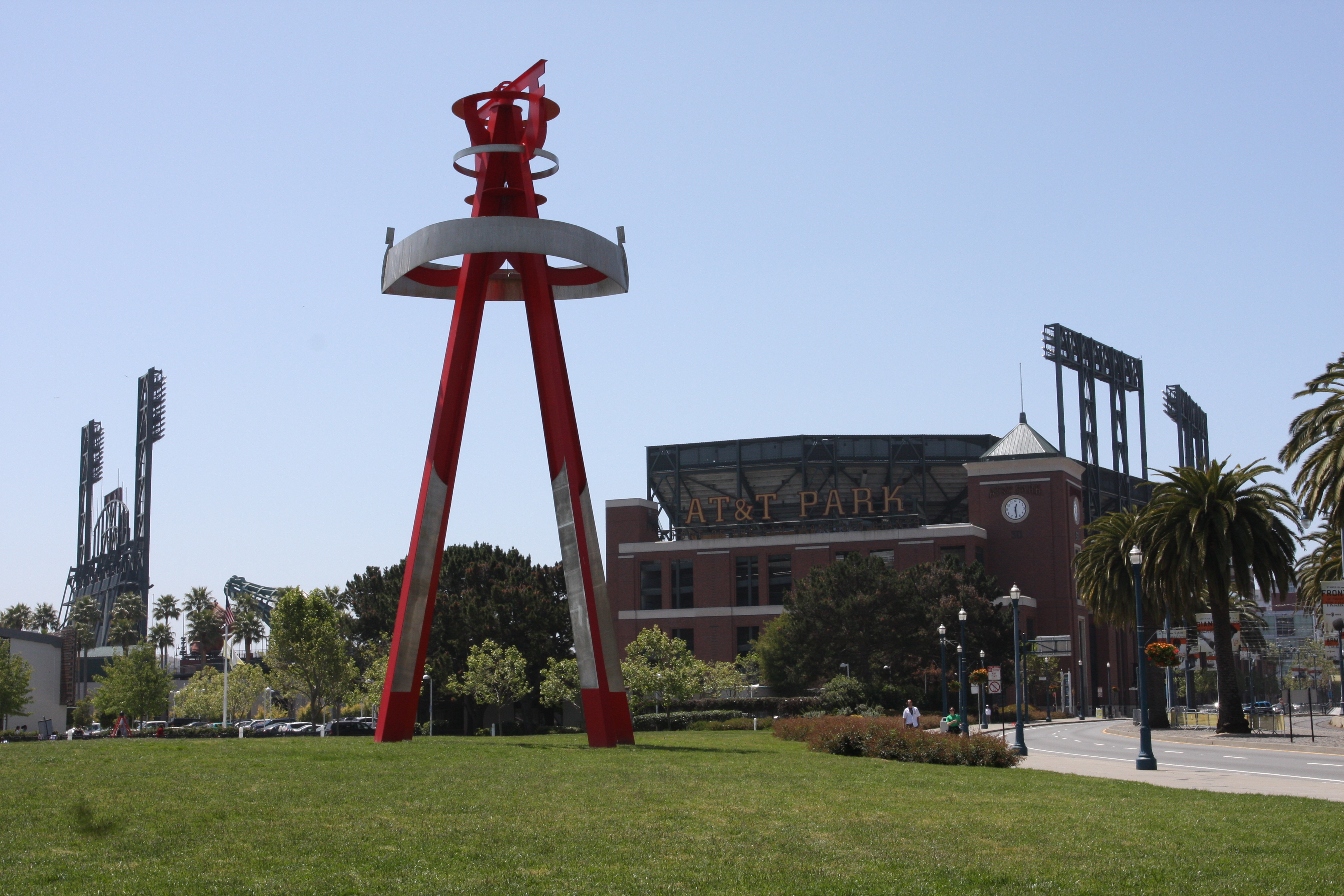 Located in South Beach neighborhood of San Francisco is the stadium where the San Francisco Giants play, AT&T Park.